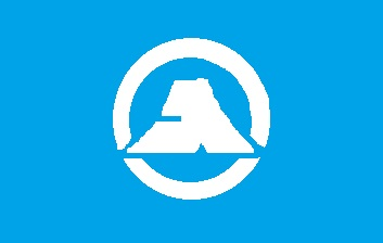 Flag of Oshino Yamanashi